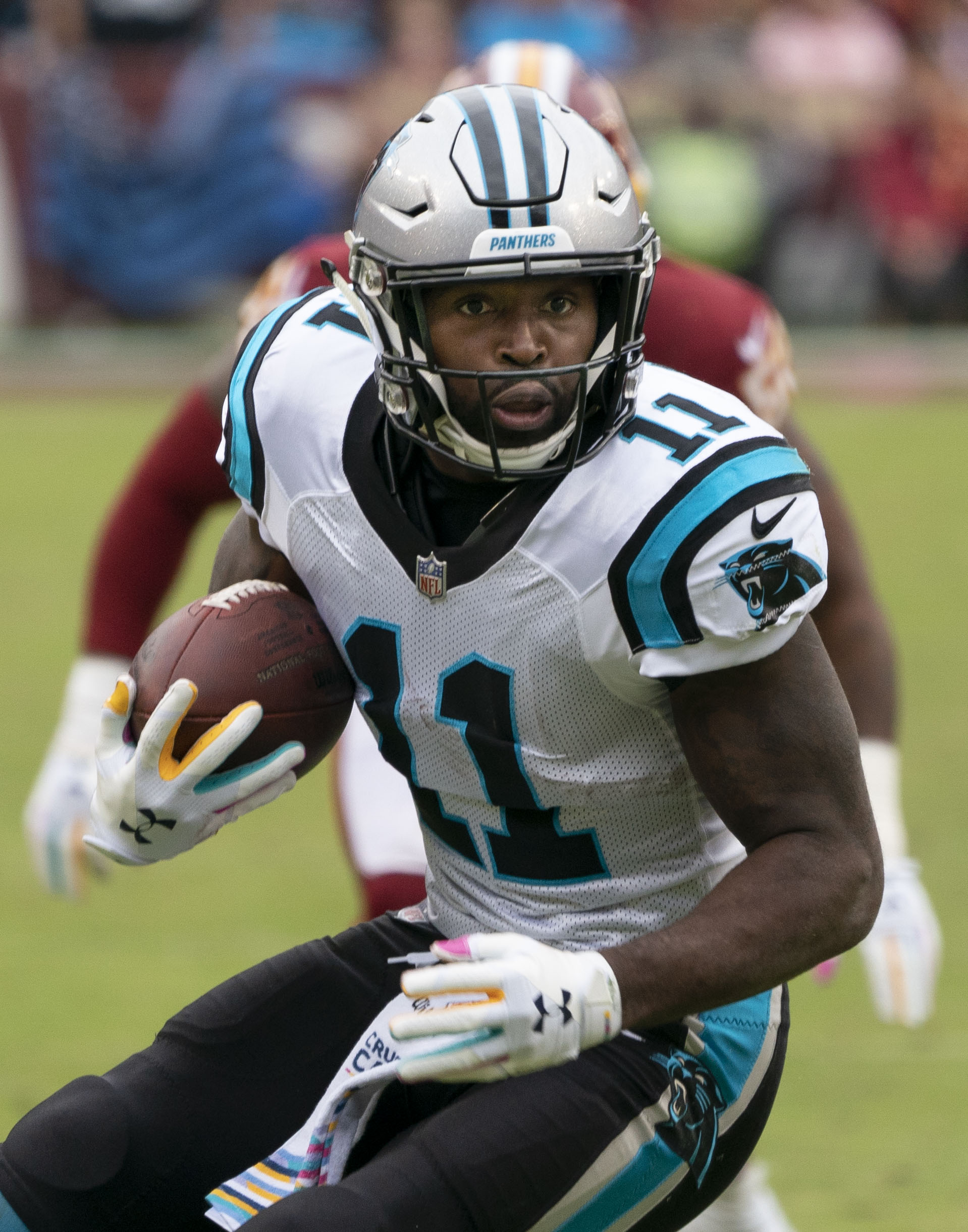 Panthers at Redskins 10/14/18